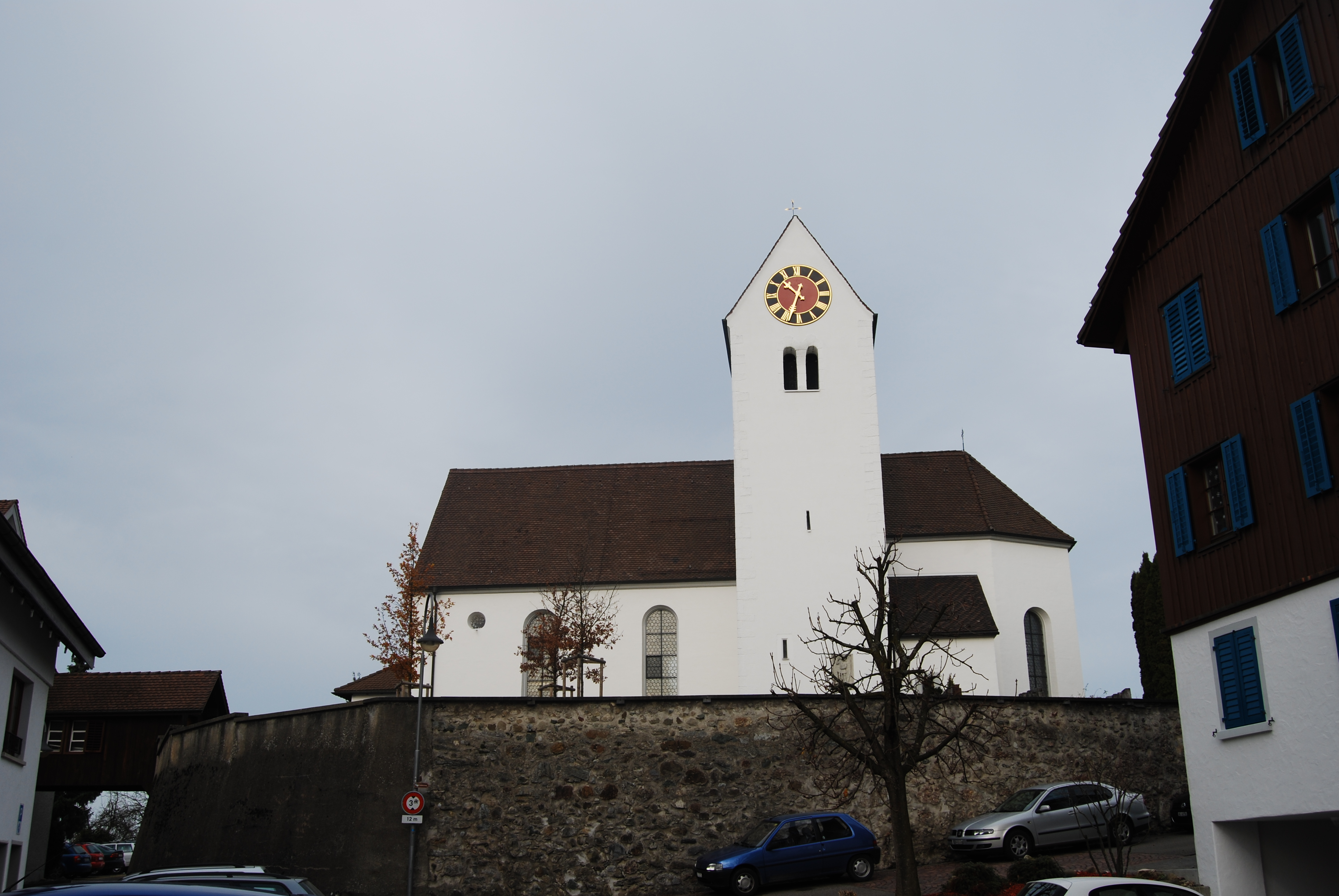 Church of Oberwil, municipality of Oberwil-Lieli, canton of Aargau, SwitzerlandEsperanto: Preĝejo de Oberwil, komunumo Oberwil-Lieli, Kantono Argovio, Svislando